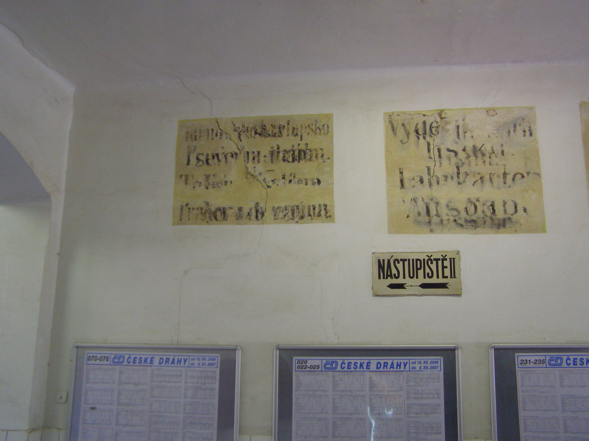 Railway station Praha Vysočany, a preserved sign reminds the waiting passengers the line was built by TKPE Railway